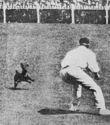 Clem Hill chasing a dog in the fourth Test at Melbourne in 1908